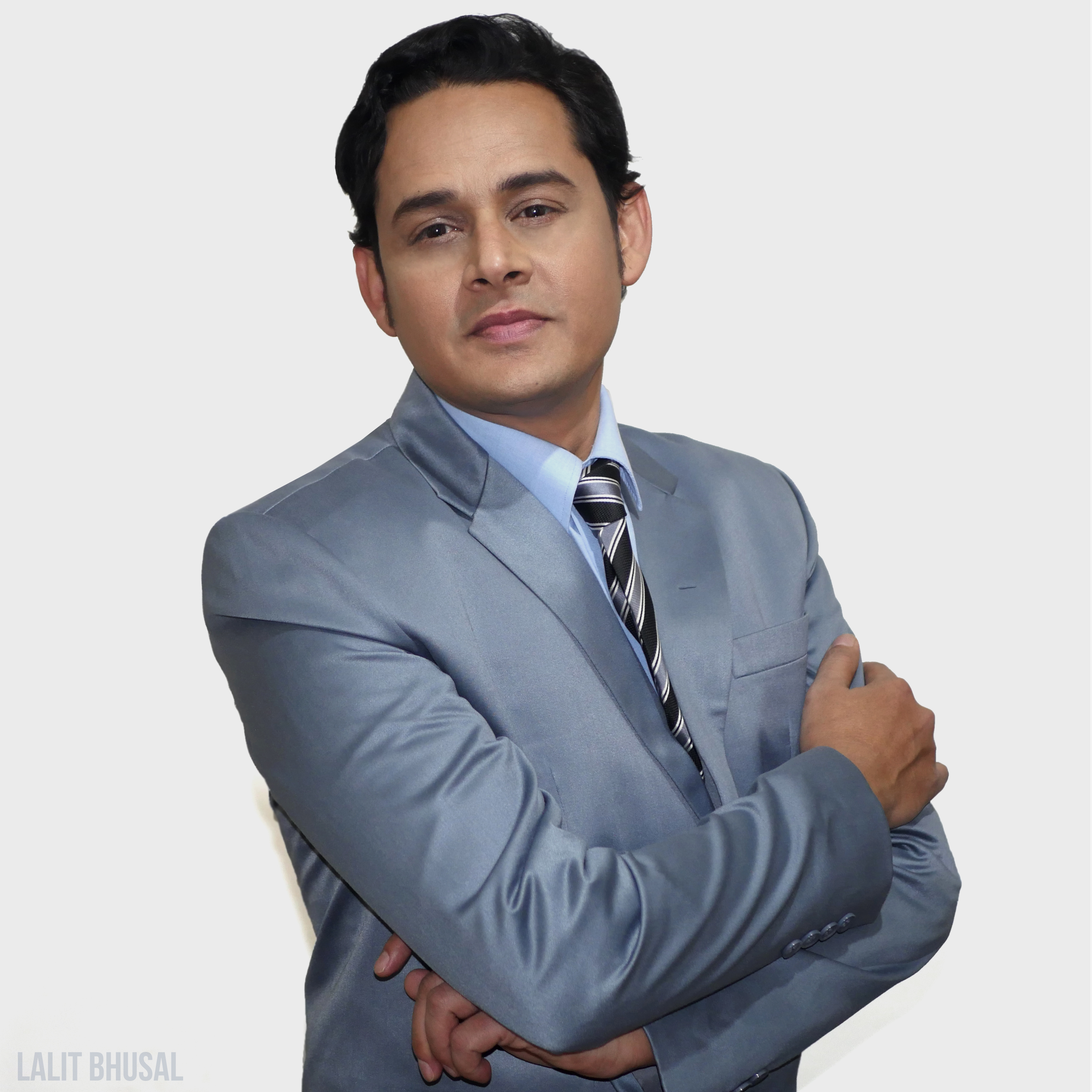 Lalit Bhusal